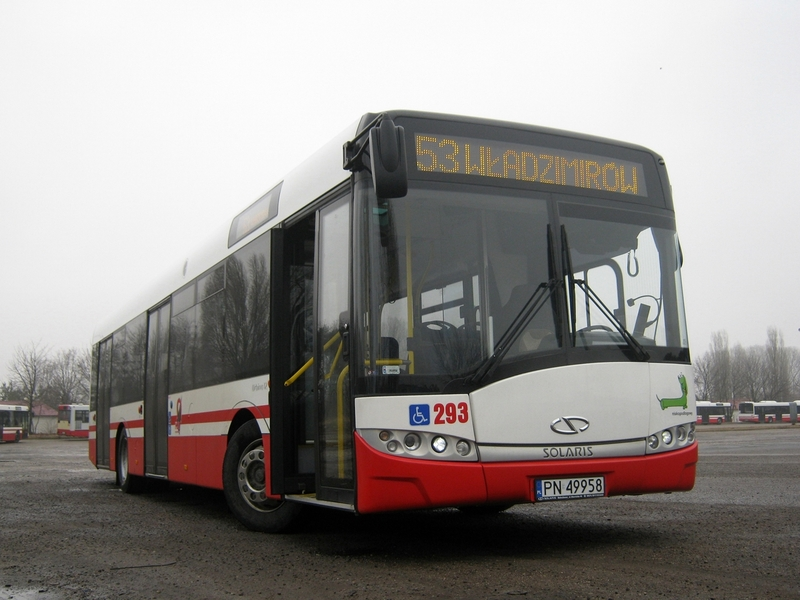 Solaris Urbino 12 (#293, reg. PN 49958) in Konin, Poland. Built 2011, MZK Konin operator.